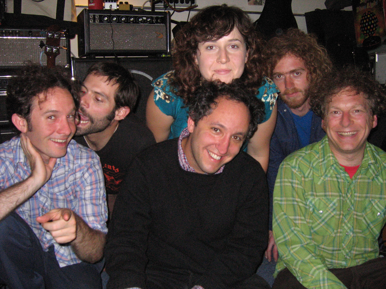 Band photo